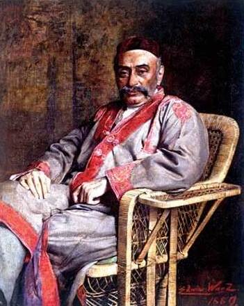 Sir D. J. Jamsetji Tata, the founder of the well-known industrial House of Tatas, was born to a priestly Parsi family in 1839. He was married at the age of five to Heerabai Cursetji Daboo. When he was thirteen he came to Bombay and a year later, he joined the Elphinstone Institute (just across from this Museum.) In the course of his illustrious career Jamsetji established the Central India Spinning, Weaving and Manufacturing Co. in 1874. It was later named Empress Mills. He laid foundation for the Iron and Steel Industry at Jamshedpur. He proposed the use of hydraulic energy, a vision carried forward by his son Dorab who completed the Tata Hydro-Electric upply Co. in 1920. Jamsetji Tata also gave the city its first grand hotel, the Taj, in1903. In this portrait, Jamsetji is shown wearing a Parsi prayer cap and woven grey embroidered robe. He sits at ease in a cane chair. Bright light with deep shadows create a dramatic effect. Jamsetji Tata was of 50 years old when he sat for this portrait by Edwin Ward. Edwin Ward was a British painter, born in Nottinghamshire. He studied at the Nottinghamshire School of Art and came to London at the age of nineteen. His period of greatest creativity was from 1883-1927 A.D. Among his clients were Lord Randolph Churchill and Sir Henry Irving. Edwin Ward was elected to the Royal Society of Portrait Painters in 1891 and some of his works can be viewed at the Castle Museum in Nottingham.